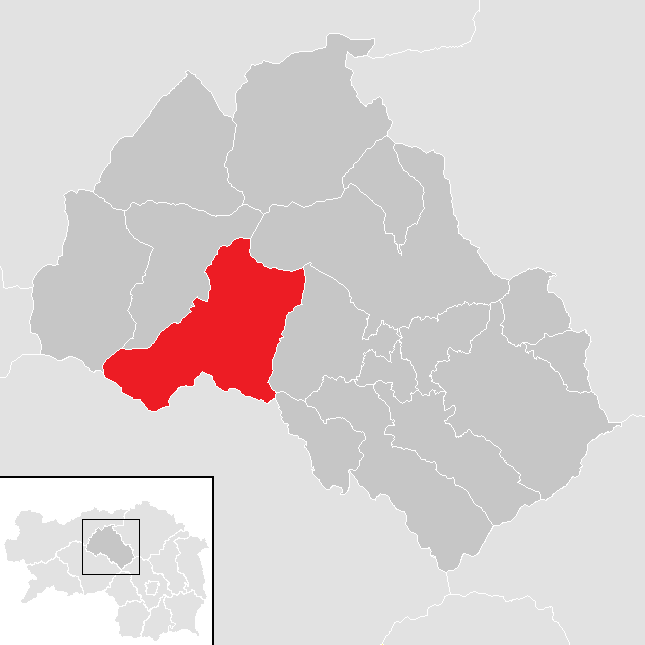 District Leoben